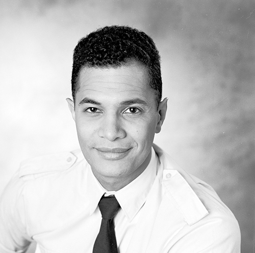 John Jones